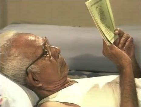 Suman Hs in Lontar Foundation film on Suman Hs (at 02.51)